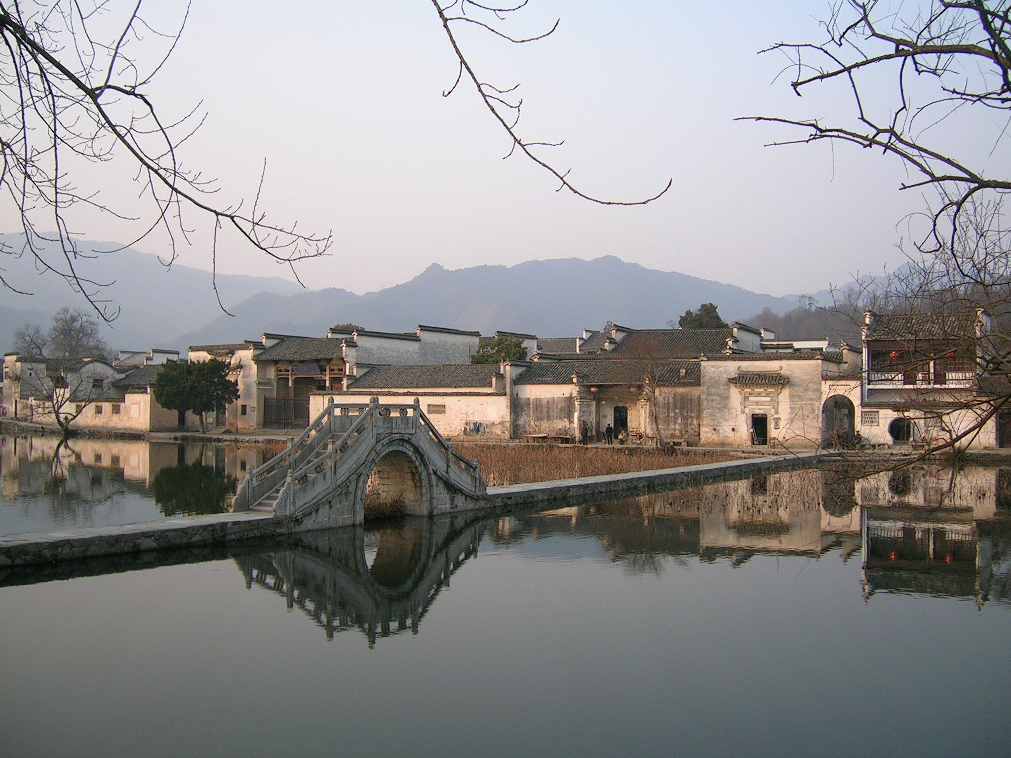 Photograph of external old houses town in the Hongcun village, in Anhui province, China. The pond in front of the houses is shaped like the horns of a water-buffalo.